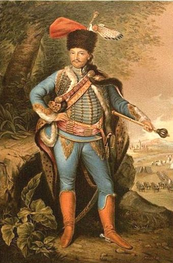 Nagy-károlyi gróf Károlyi Ferenc (Olcsva (Szatmár megye), 1705. június 20. – Nagykároly, 1758. augusztus 14.) Szatmár vármegye örökös főispánja, valóságos belső titkos tanácsos portréja